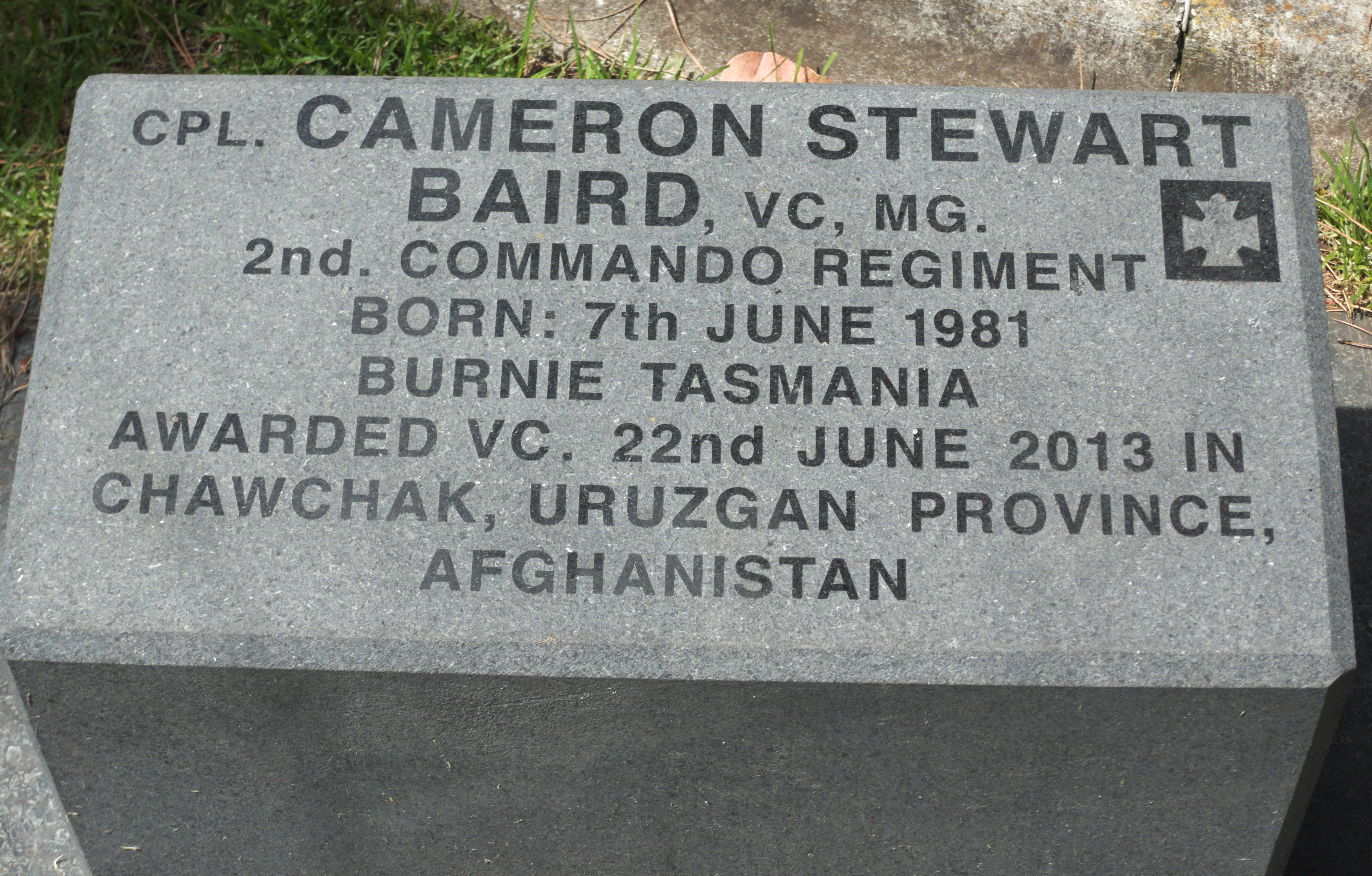 Cameron Baird memorial plinth in Burnie Park. The unveiling of the plinth can be seen in File:Memorial-unveilings-Burnie-20150331-013.jpg, File:Memorial-unveilings-Burnie-20150331-014.jpg and related photos.